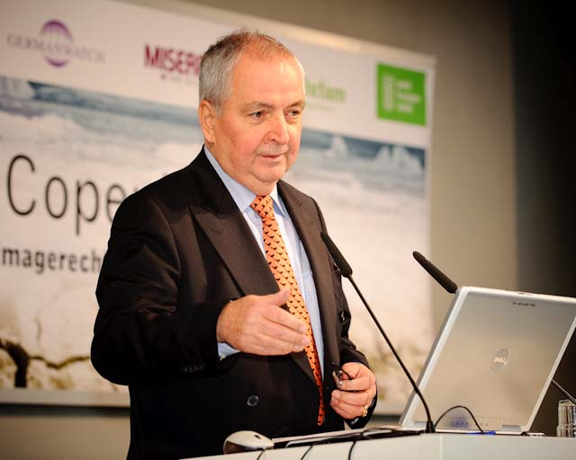 Klaus Töpfer.